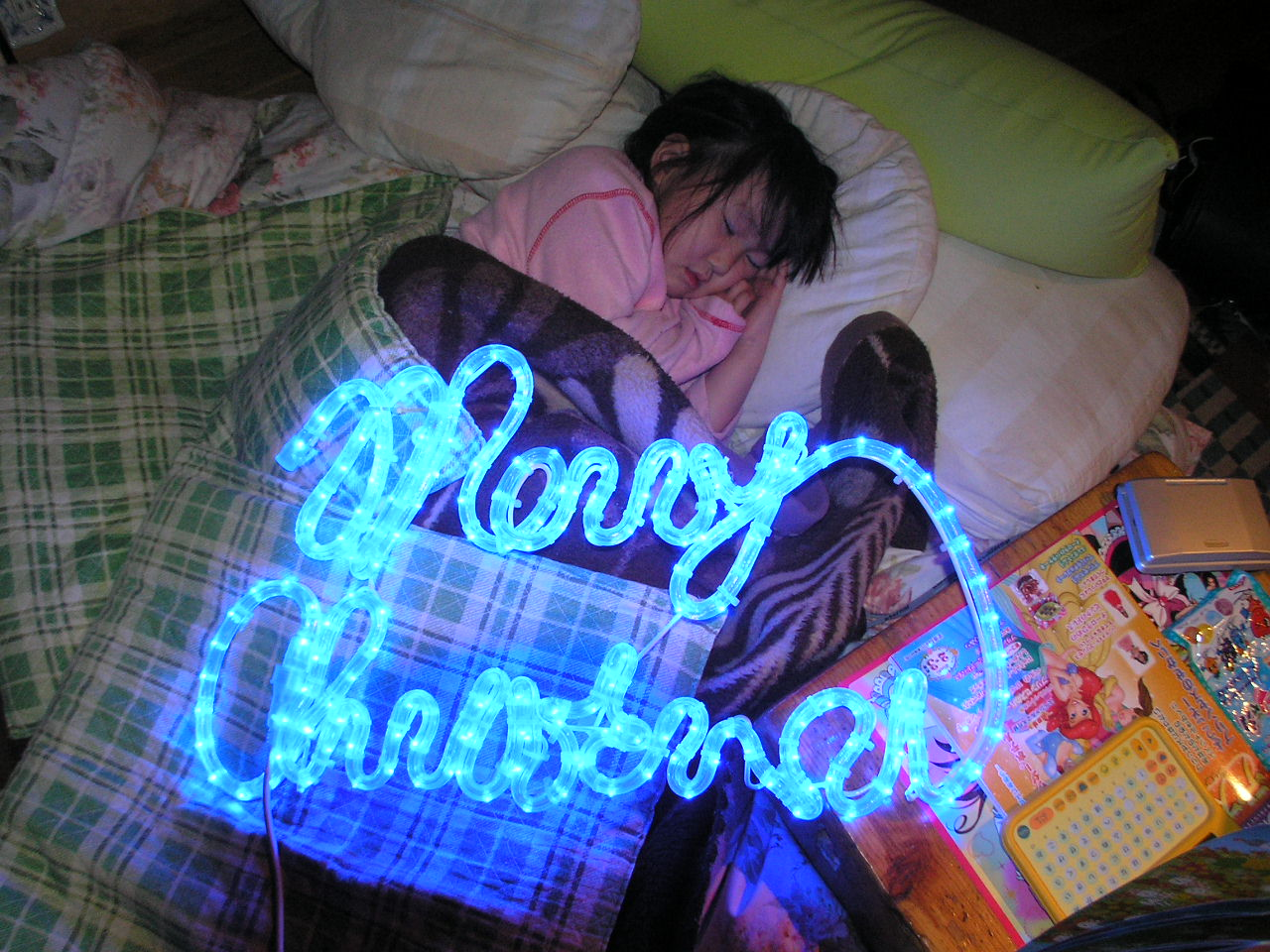 Tube light